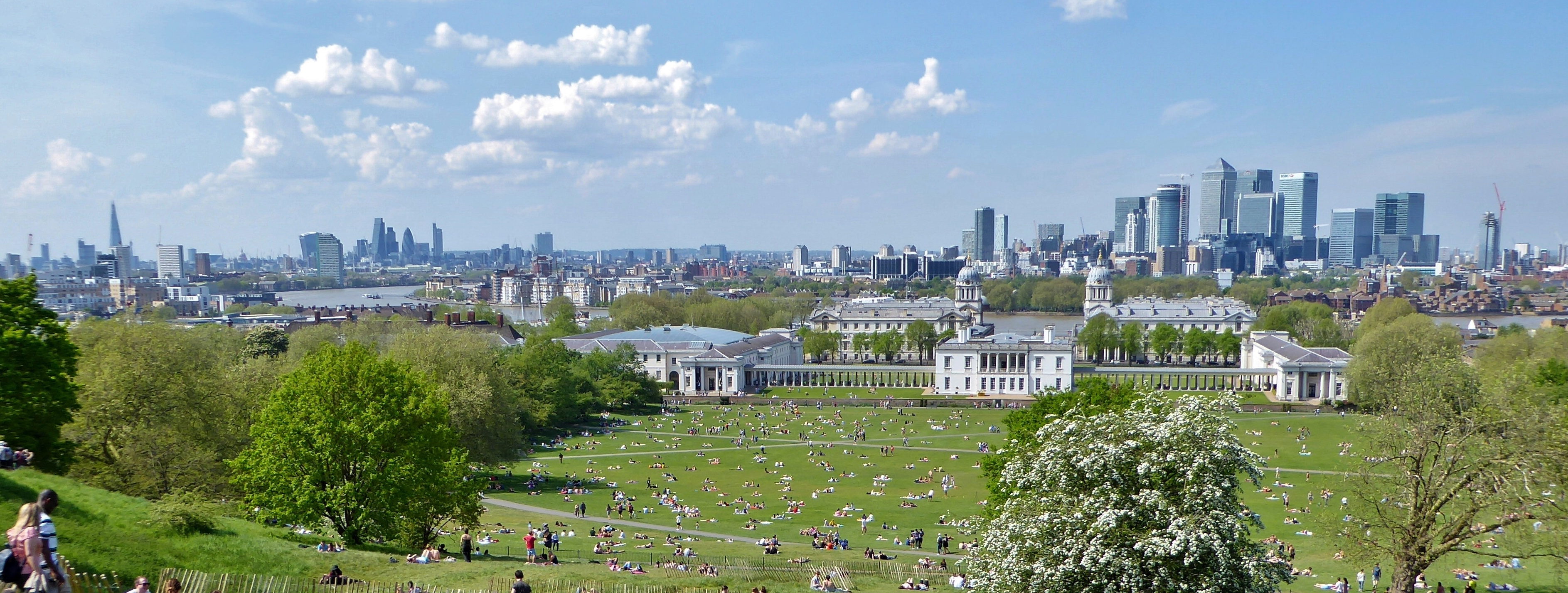 Cropped View across Greenwich Park taking in The Shard, the City of London, River Thames, National Maritime Museum, Queen's House, the Old Royal Naval College, and Canary Wharf. Greenwich Park, Greenwich, London